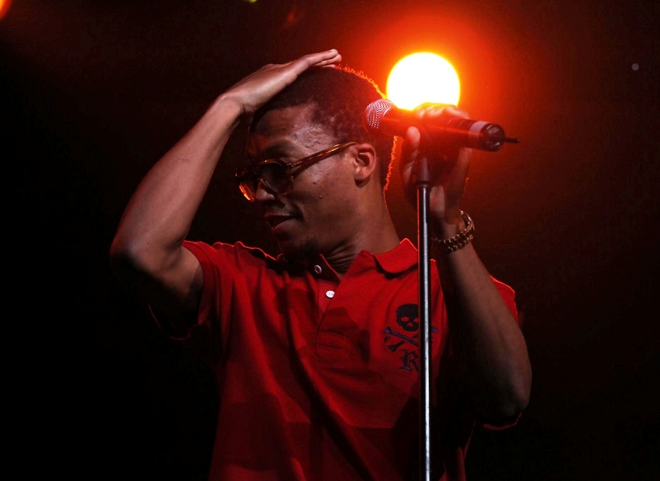 Lupe Fiasco performing in Melbourne, Australia on January 26, 2009.